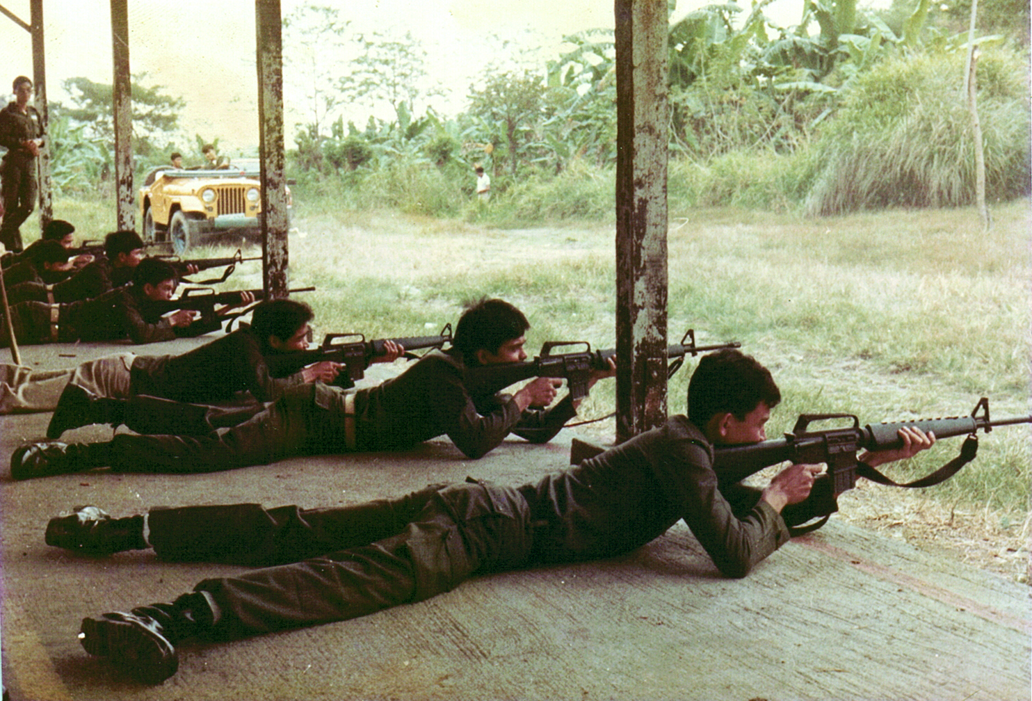 Summer Camp, 1982